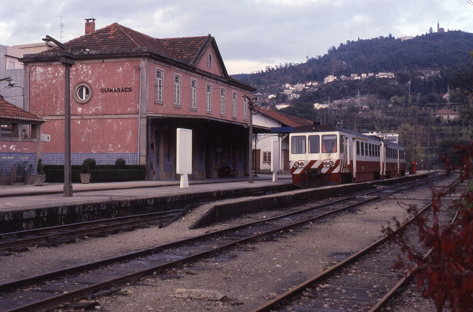 Narrow gauge in Portugal on 26 November 1990. 9622 is seen at Guimarães having arrived on the 13:37 from Porto Trindade.